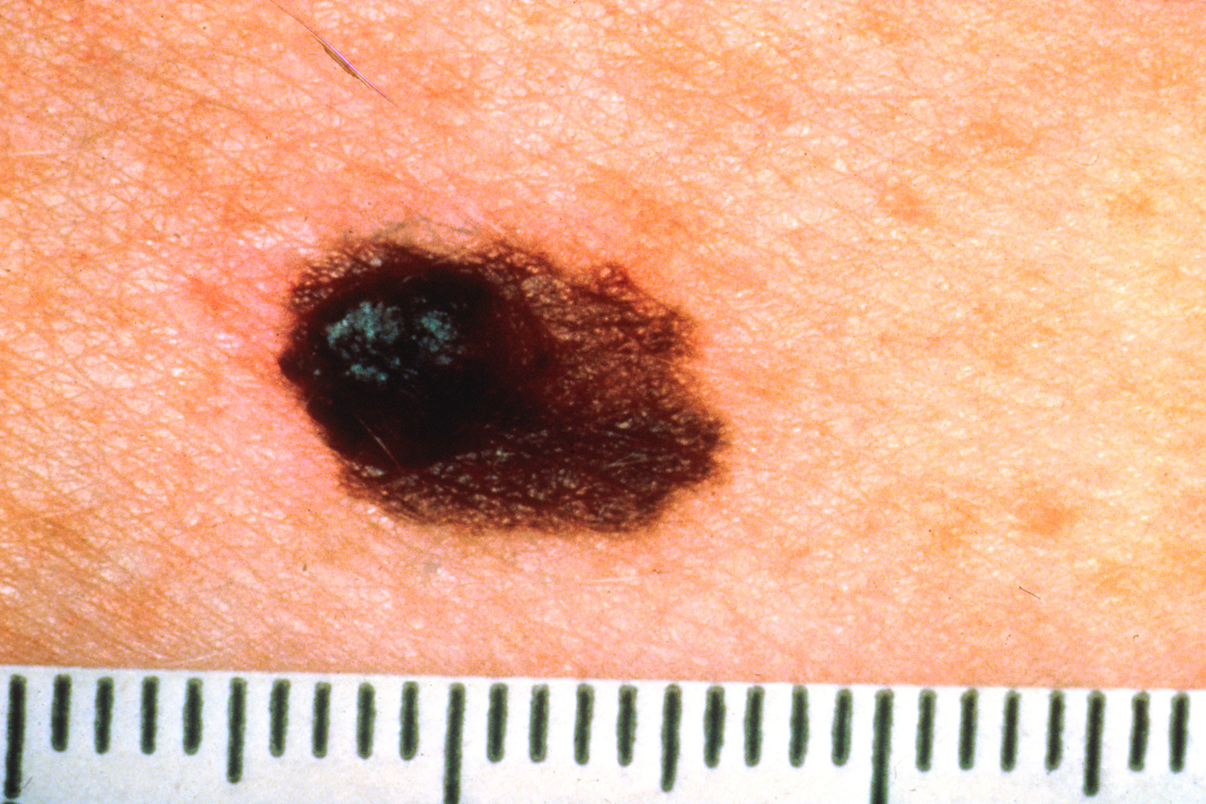 Title: Pathology: Patient: Melanoma: Asymmetry Description: Part of the ABCDs for detection of melanoma. See artwork: WYNTK-15b. Topics/Categories: Pathology -- Patient Type: Color Slide Source: Skin Cancer Foundation Author: Unknown photographer/artist AV Number: AV-8809-4035 Date Created: September 1988 Date Entered: 1/1/2001 Access: Public